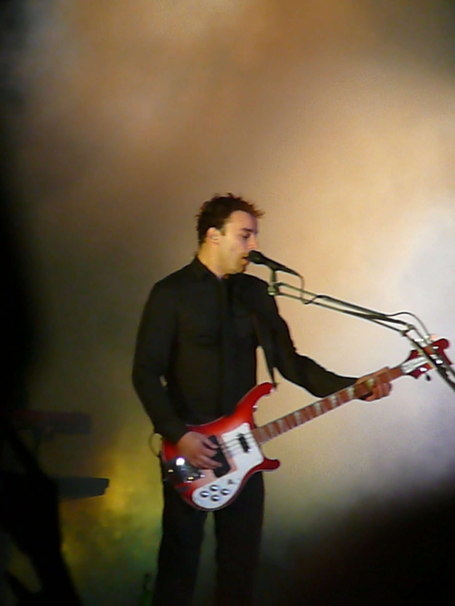 Muse performing at Lollapalooza, 2007.